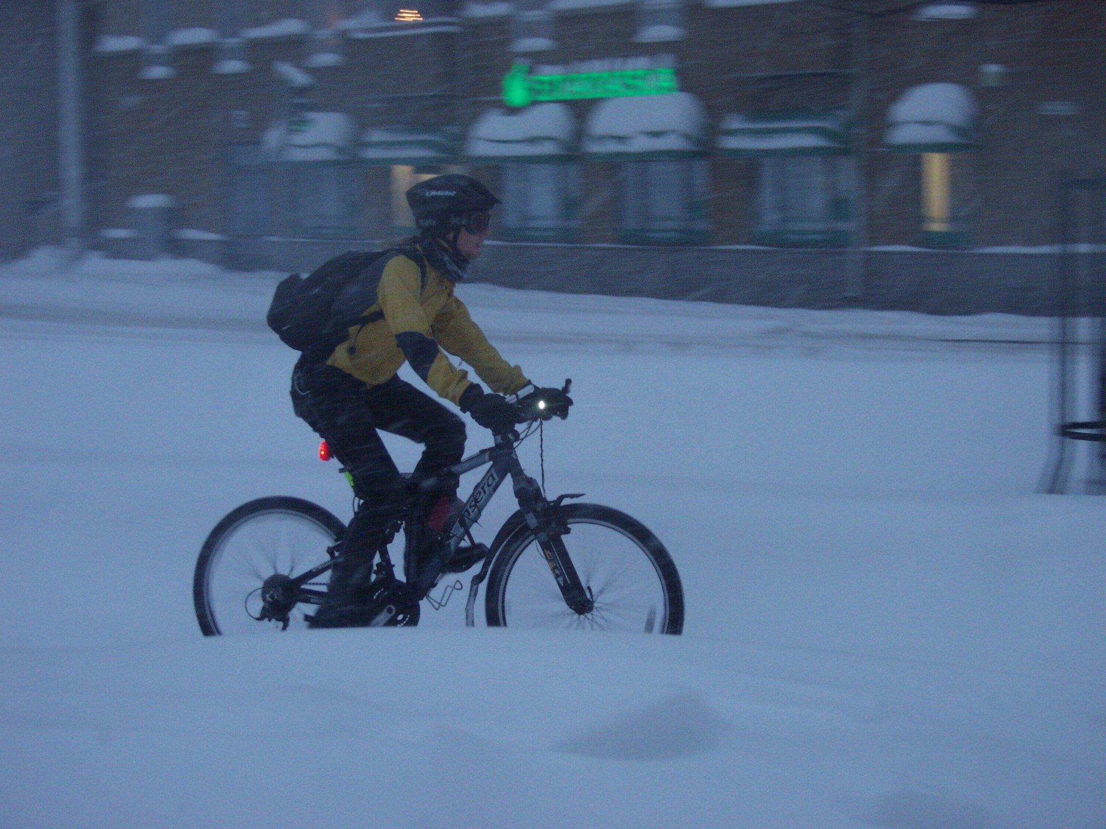 Snow in Helsinki in the Hietalahti neighborhood in December 2010